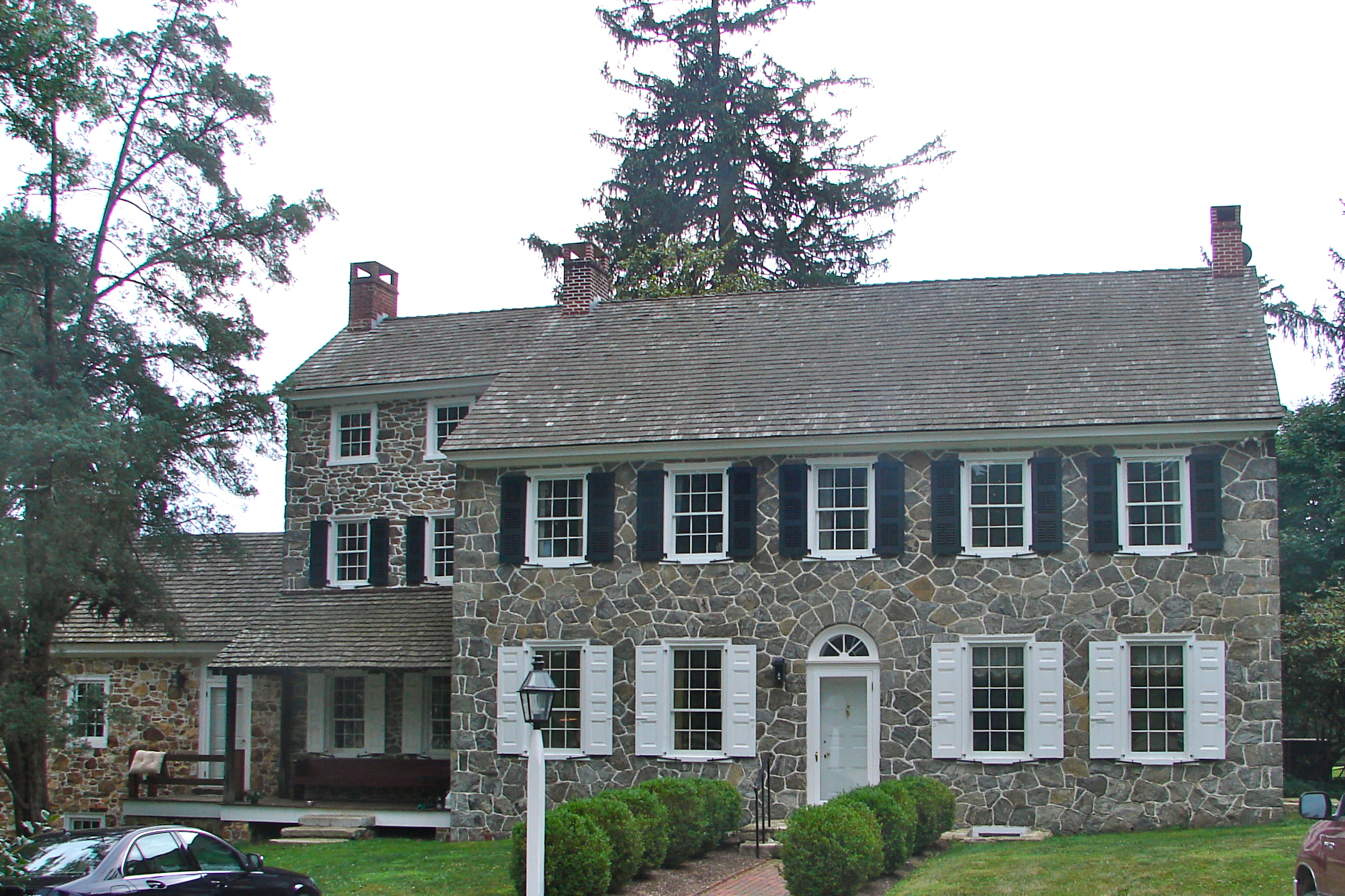 Oakdale on Hillendale Road, near Chadds Ford, Pennsylvania. Used in the Underground Railroad.